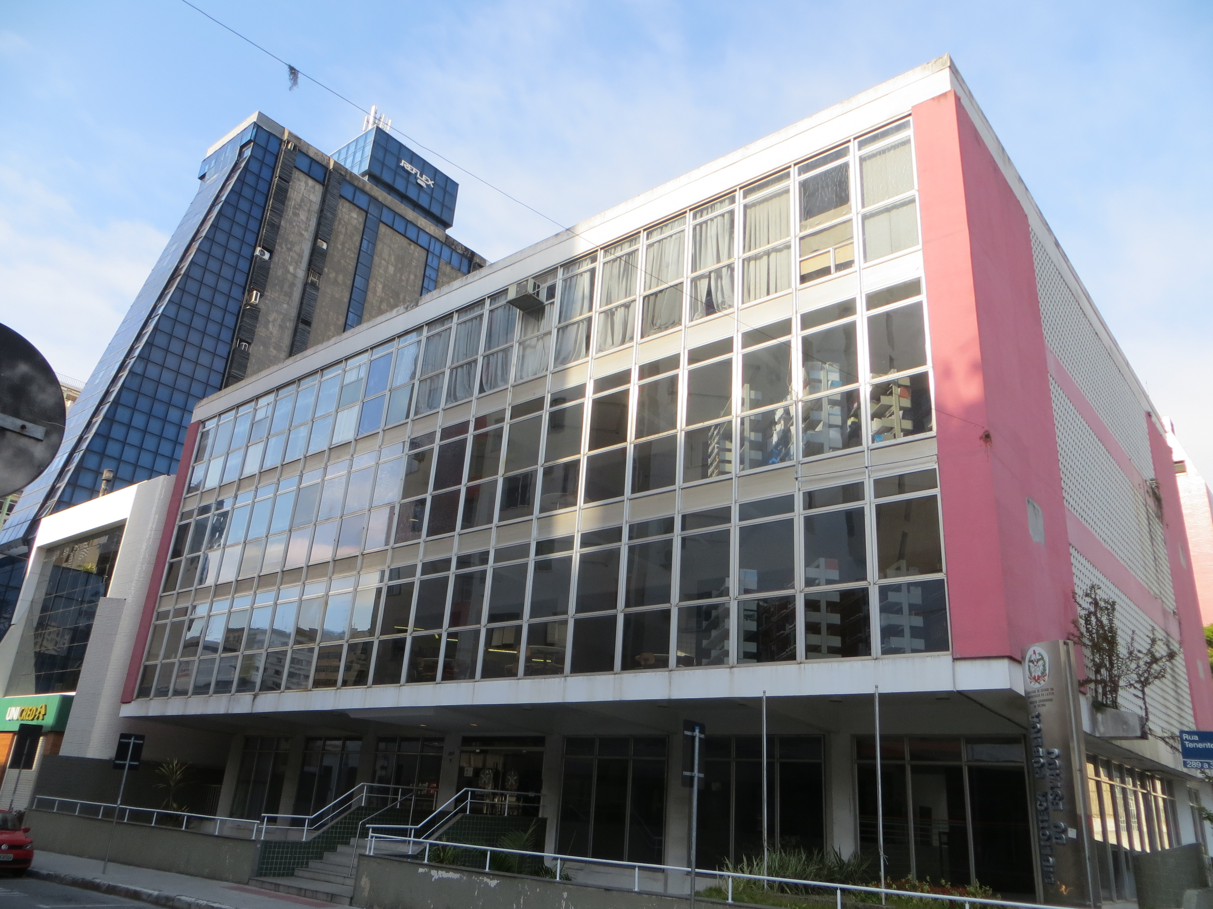 Santa Catarina State Public Library, in the Florianópolis downtown, southern Brazil.